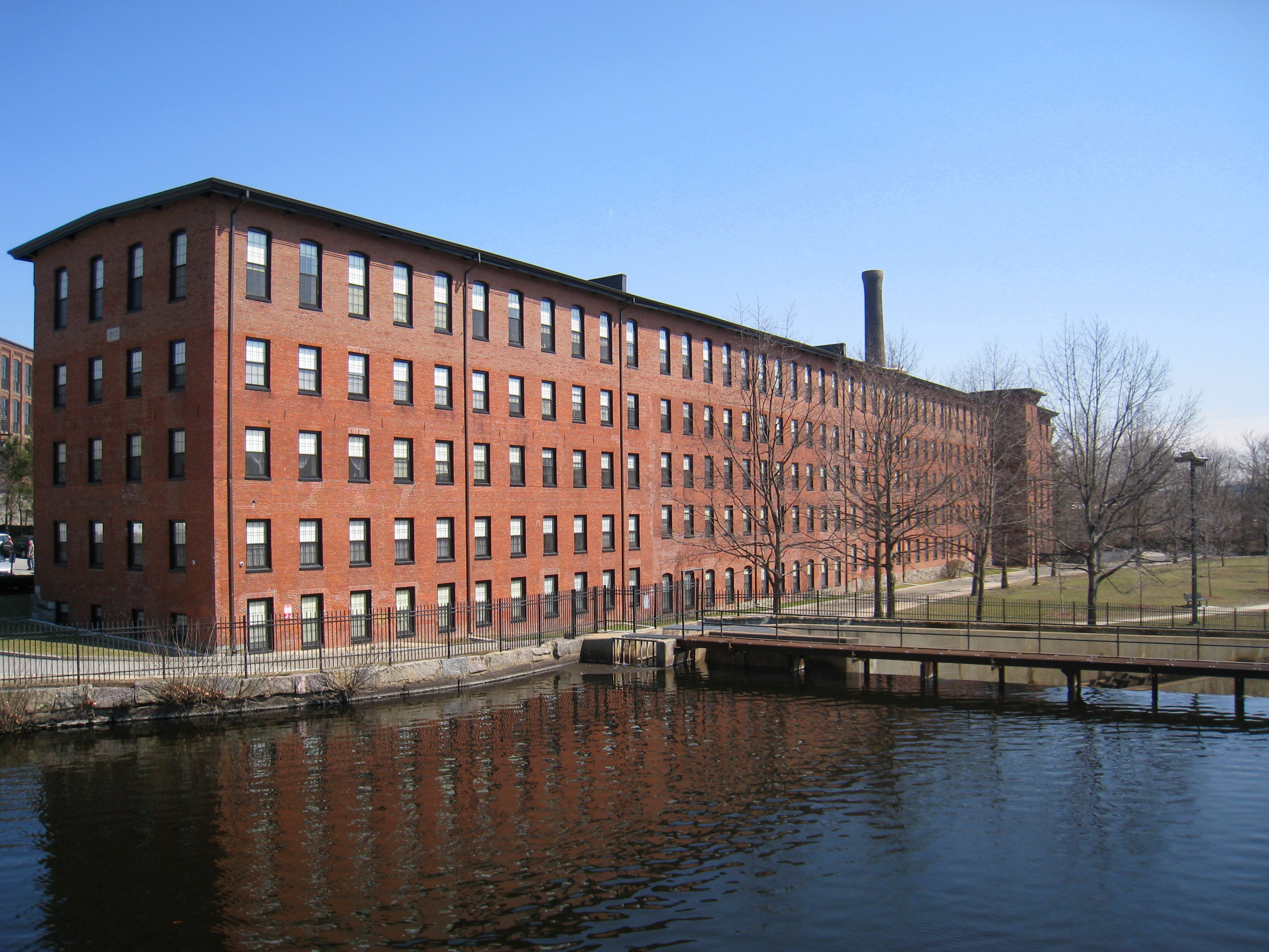 Boston Manufacturing Company mill complex on the Charles River, Waltham, Massachusetts, USA. Also called the Francis Cabot Lowell Mill. Earliest portions built in 1814 and 1816.